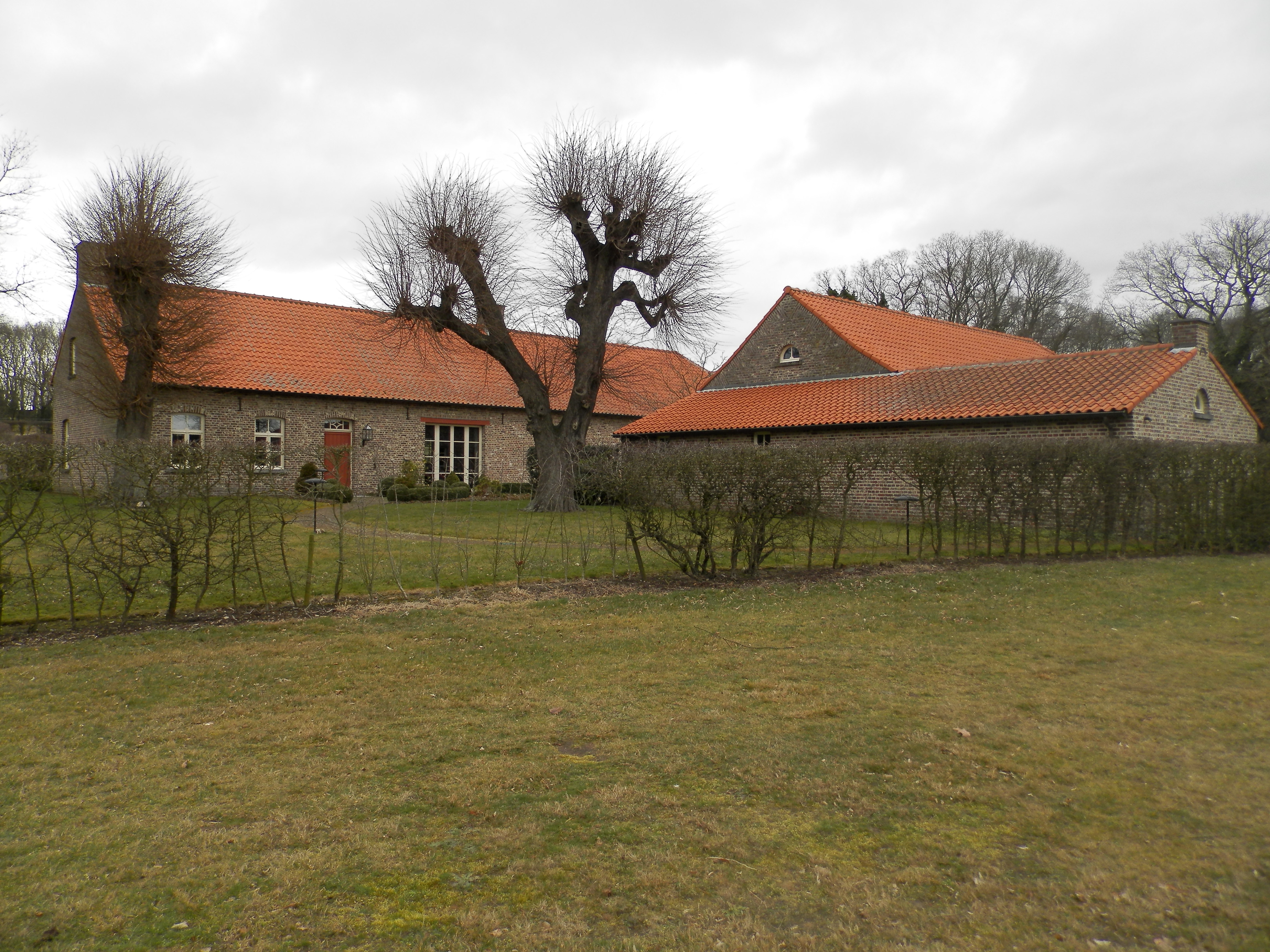 Langerlo